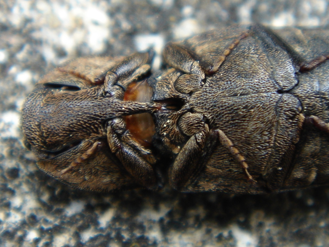 Adelocera murina on its back. You can easily see the snap mechanism.